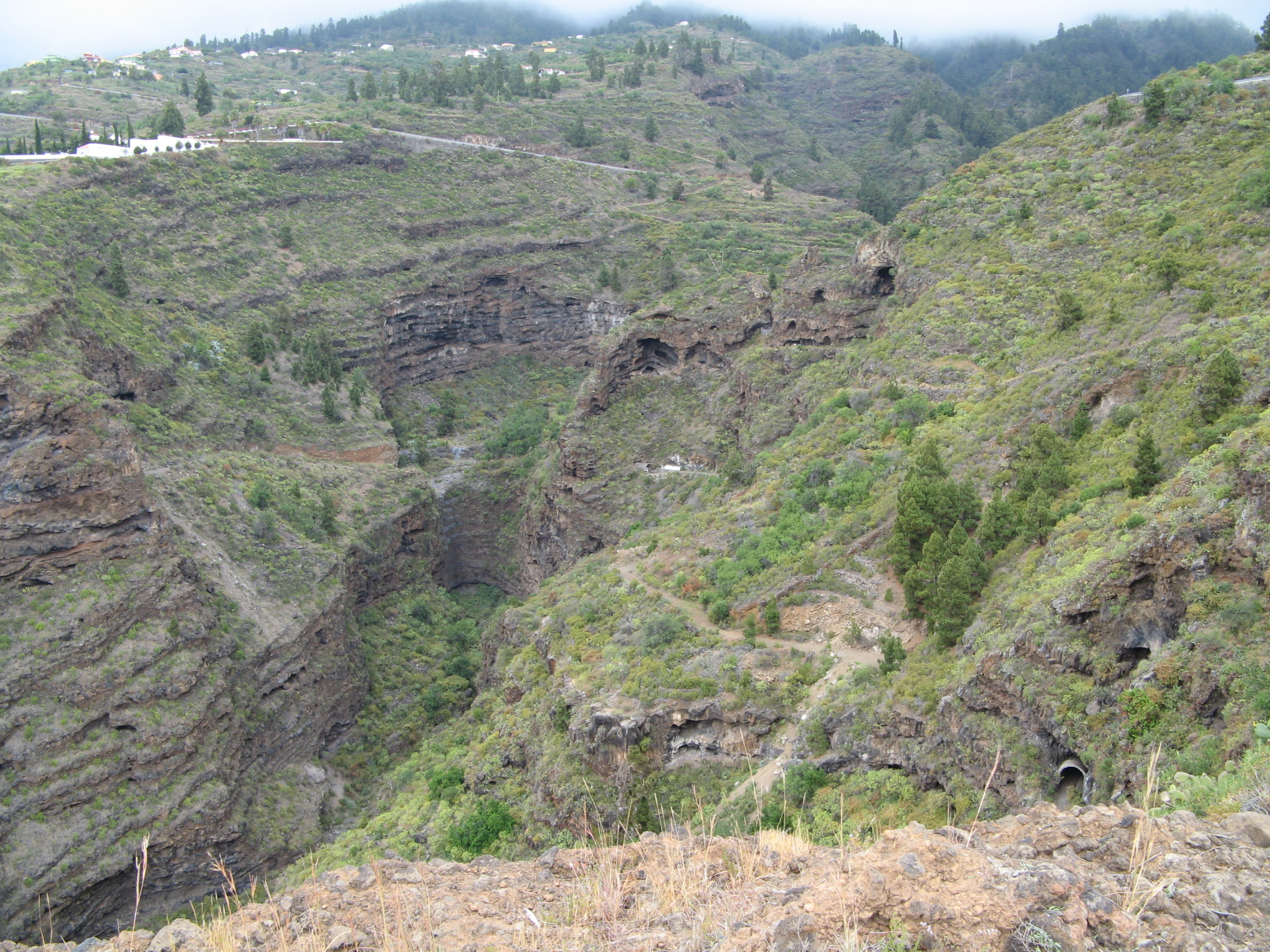 Tijarafe, Barranco del Jorado